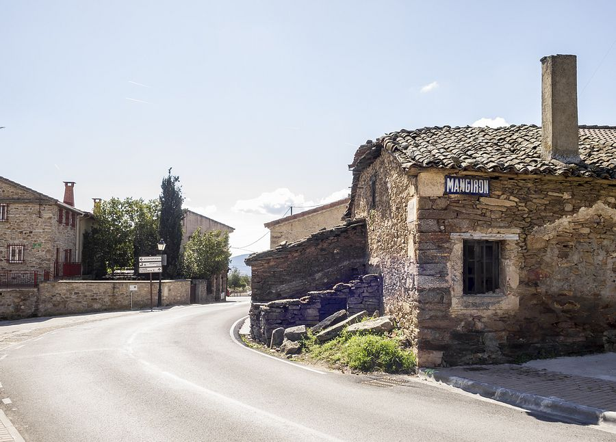 Casa típica en la entrada al pueblo